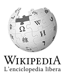 Wikipedia logo 2.0